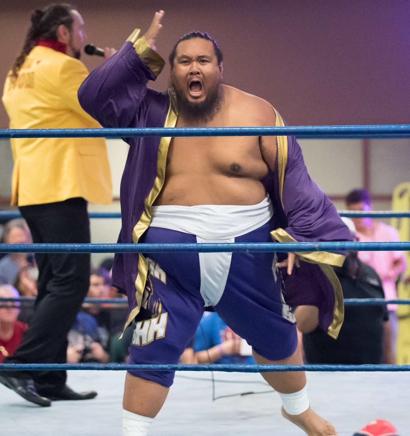 Falla Bahh in 2018